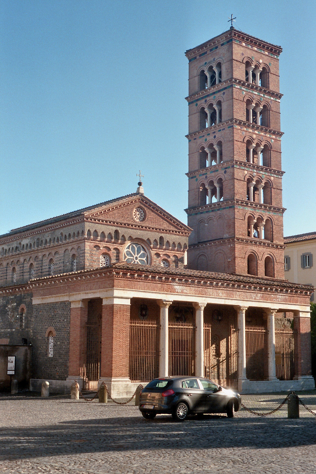 Grottaferrata Abbey, Latium, Italy